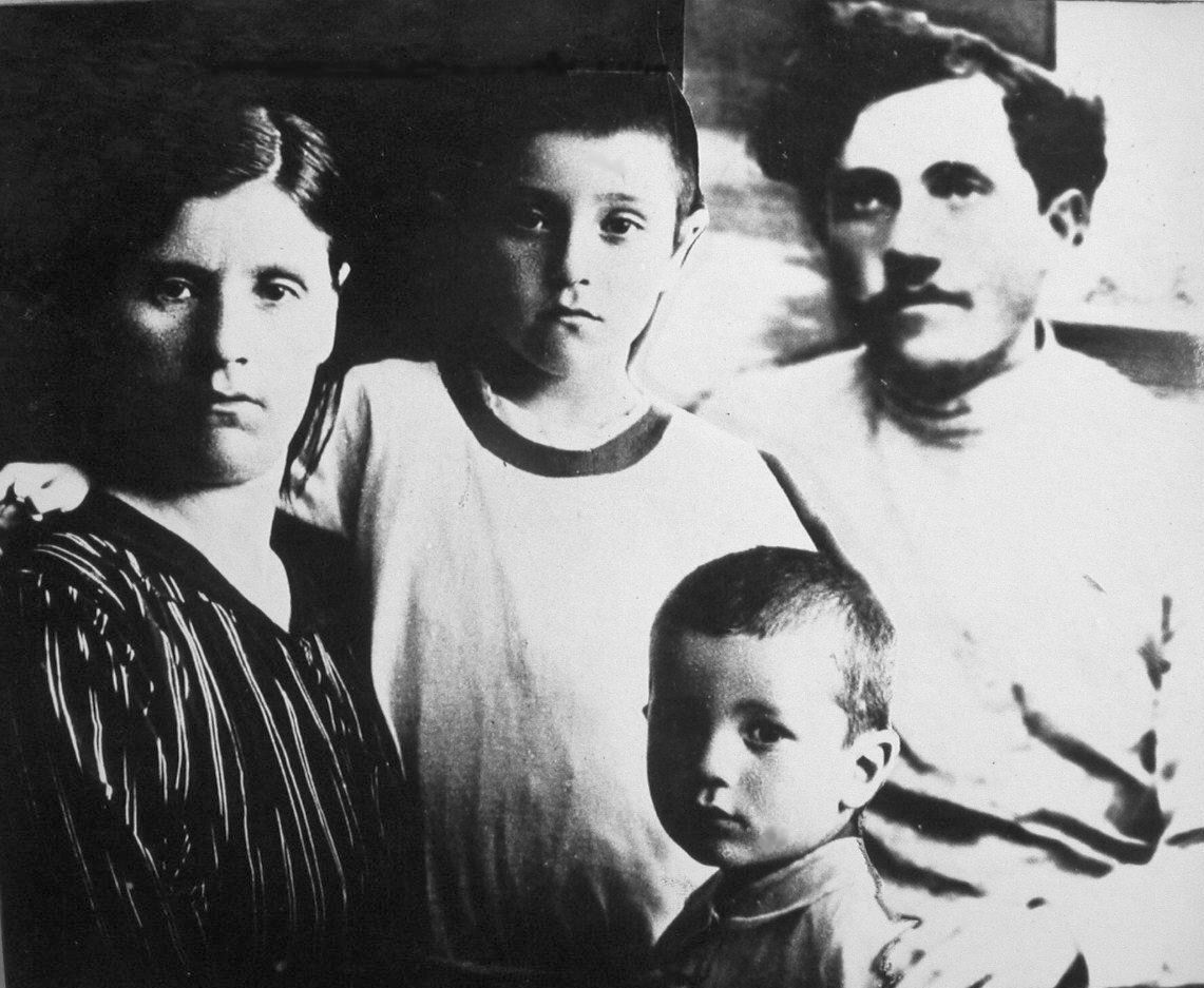 Personal picture of Giladi family